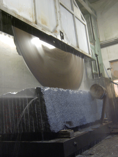 A photo from Taken by Halvard from Norway.